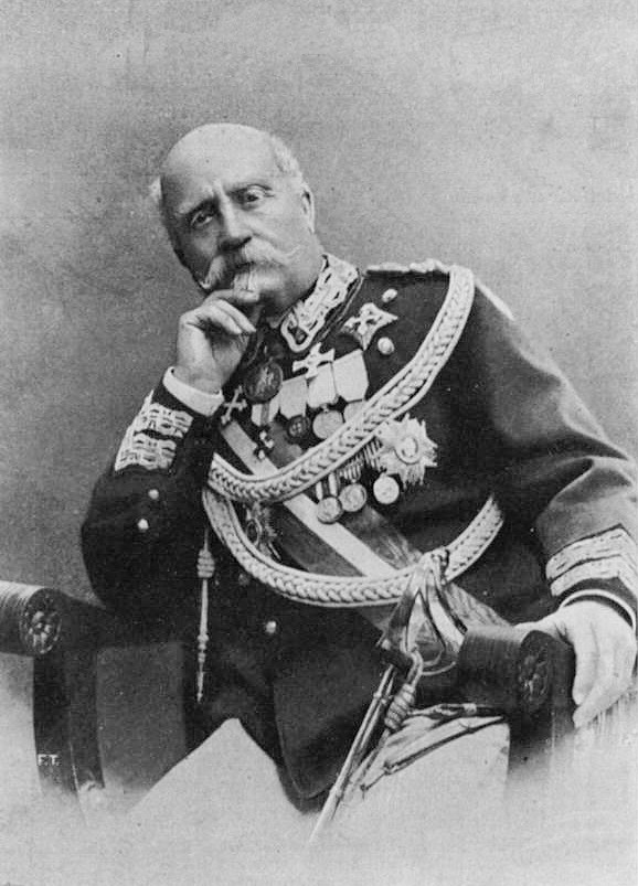 Portrait of Fiorenzo Bava-Beccaris (Fossano, 17 March 1831 - Rome, 8 April 1924), Italian general.